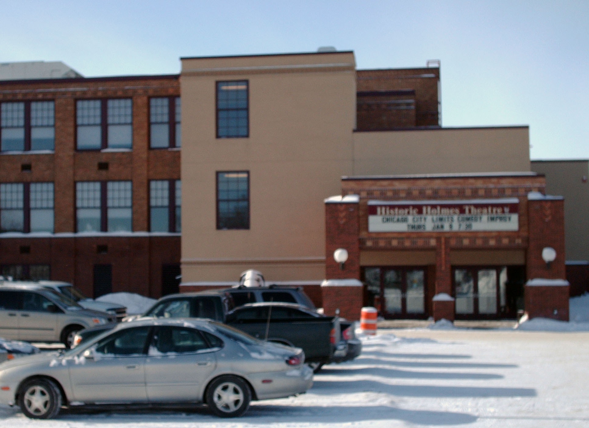 Main entrance to the Historic Holmes Theatre, Detroit Lakes, Minnesota